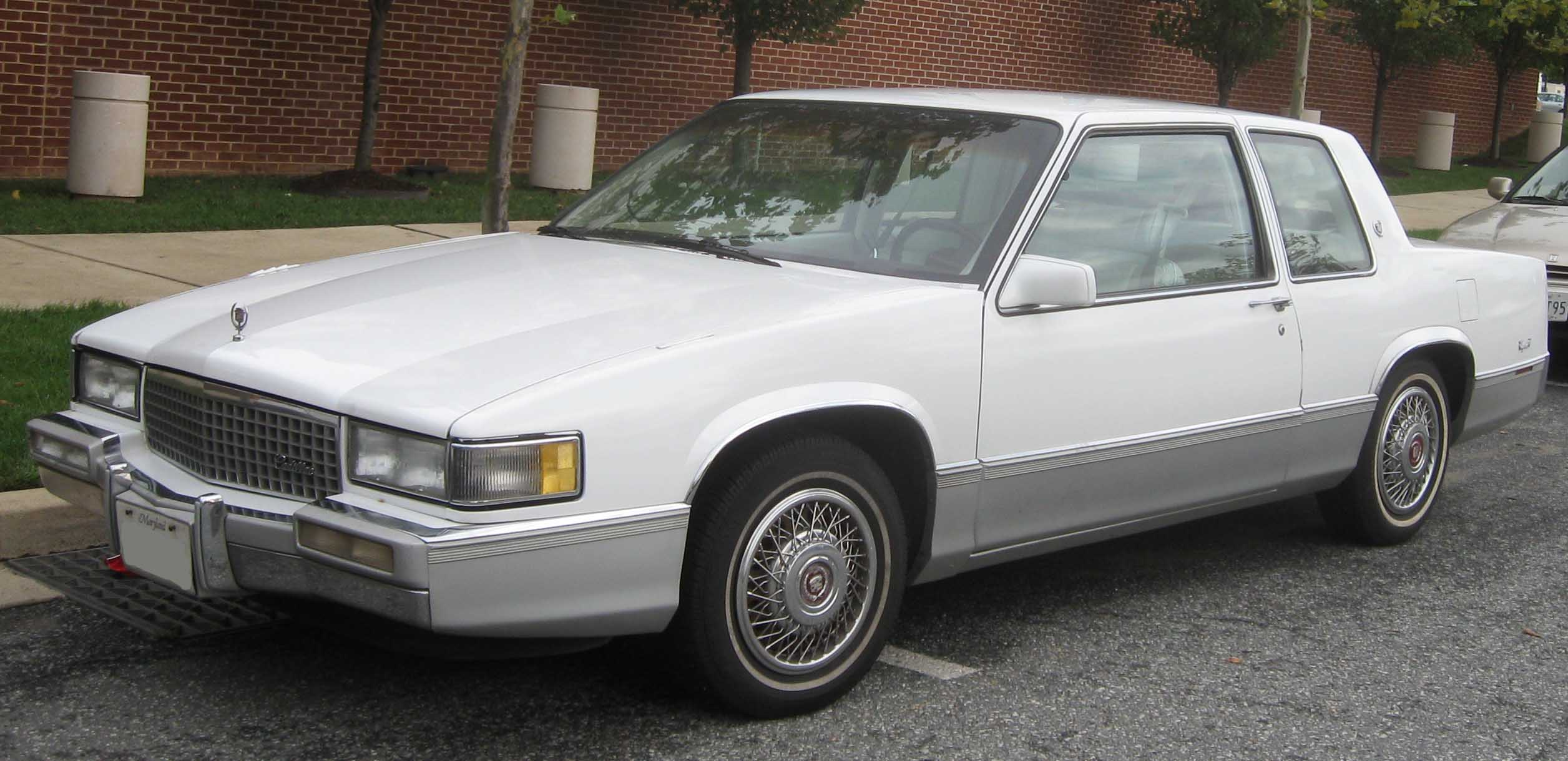 1989-1993 Cadillac Coupe de Ville photographed in College Park, Maryland, USA.